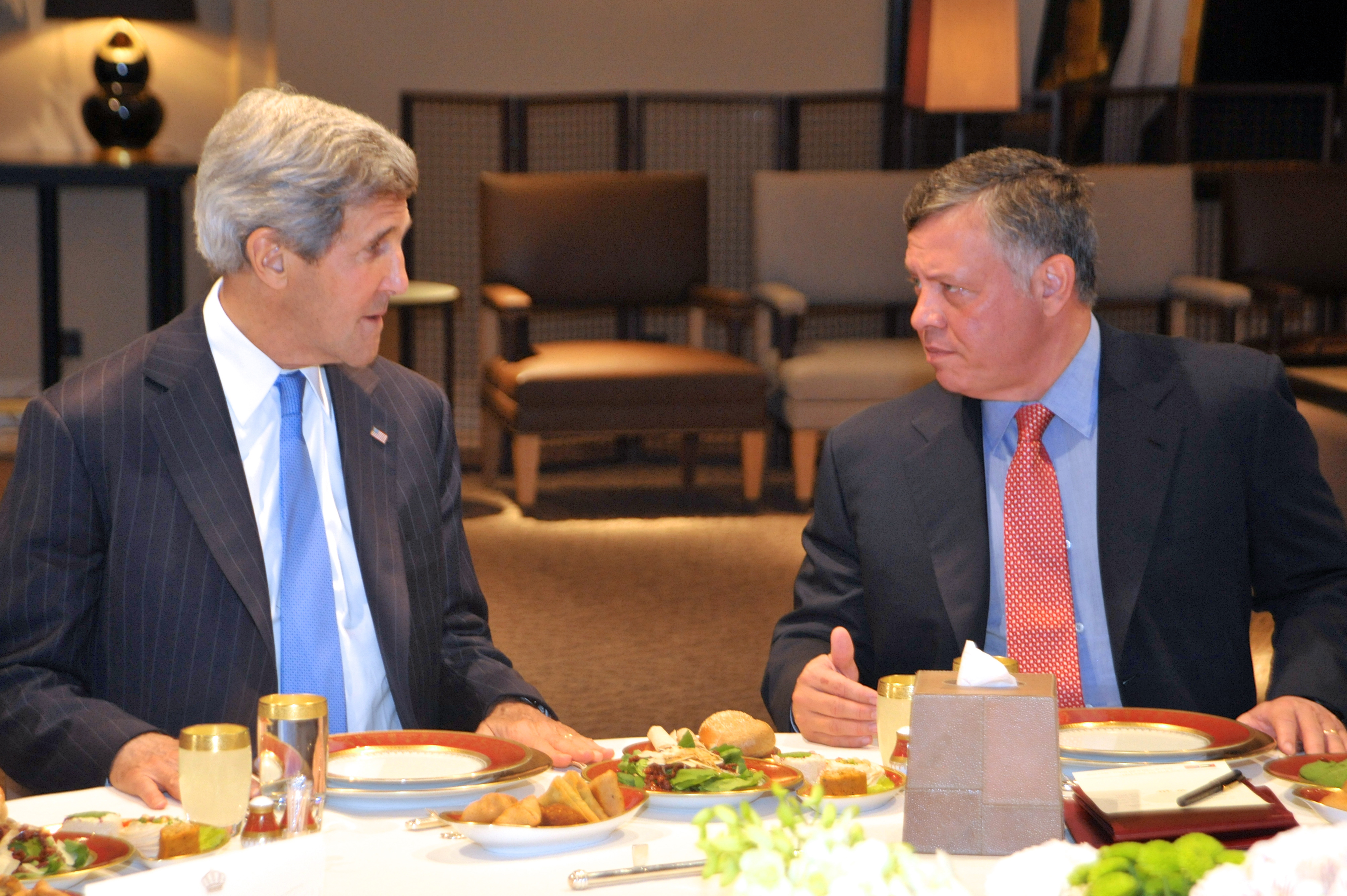 U.S. Secretary of State John Kerry chats with Jordanian King Abdullah II before a working lunch at Al-Hummar Palace in Amman, Jordan, on June 27, 2013. [State Department photo/ Public Domain]